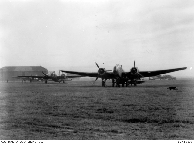 AWM caption : ENGLAND. C. 1942. A HAMPDEN AIRCRAFT OF NO. 455 SQUADRON RAAF AT RAF STATION WIGSLEY STANDING IN FRONT OF A WELLINGTON BOMBER AT A BOMBER COMMAND BASE EARLY IN 1942. PORTION OF A WHITLEY BOMBER AIRCRAFT MAY BE SEEN BEHIND THE WELLINGTON'S STARBOARD WING. THESE THREE TYPES FORMED THE BACKBONE OF BOMBER COMMAND 1939-42. See also : File:455 Squadron RAAF Hampdens at RAF Wigsley WWII AWM SUK10371.jpg